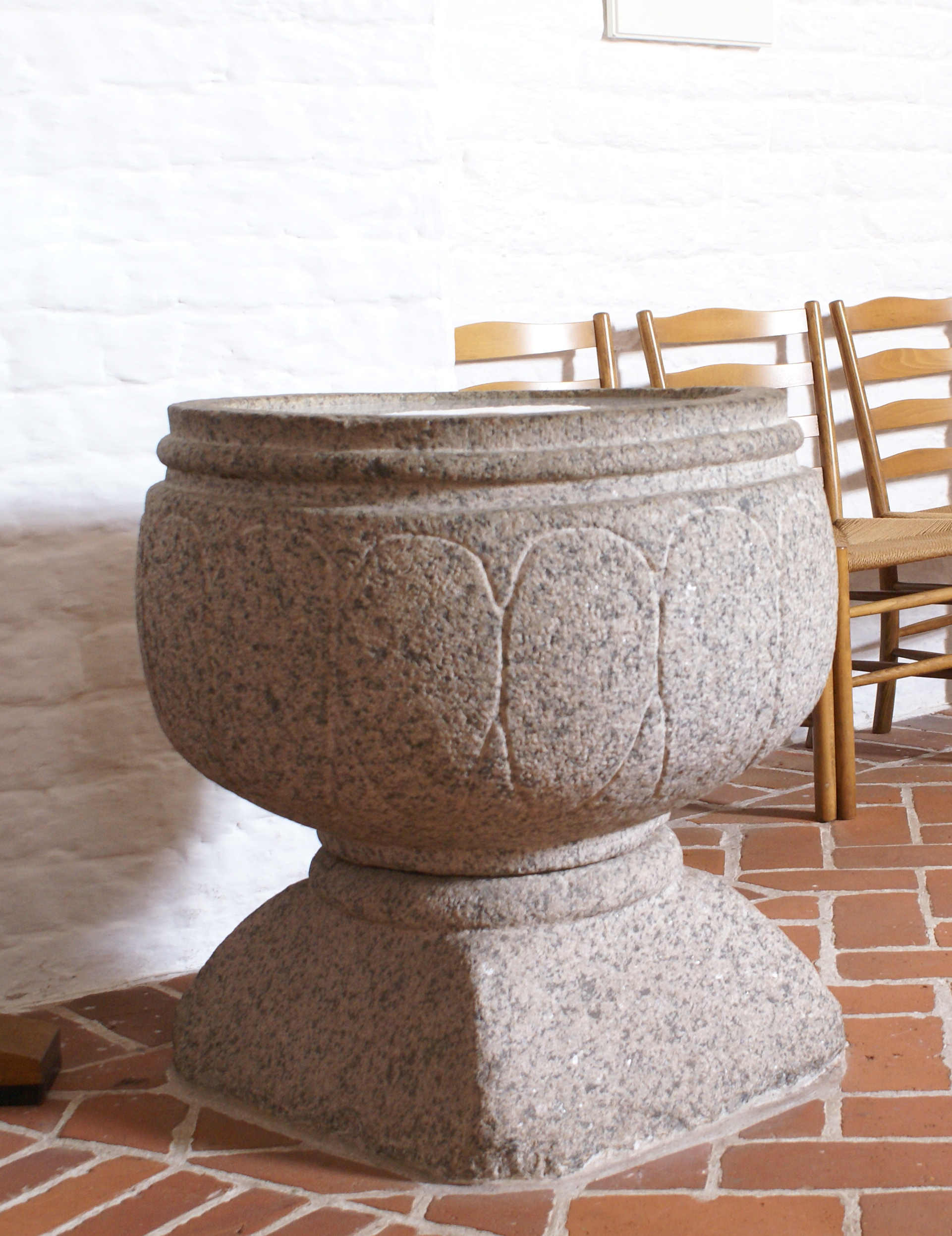 Thorsager Church, Denmark, Baptismal font